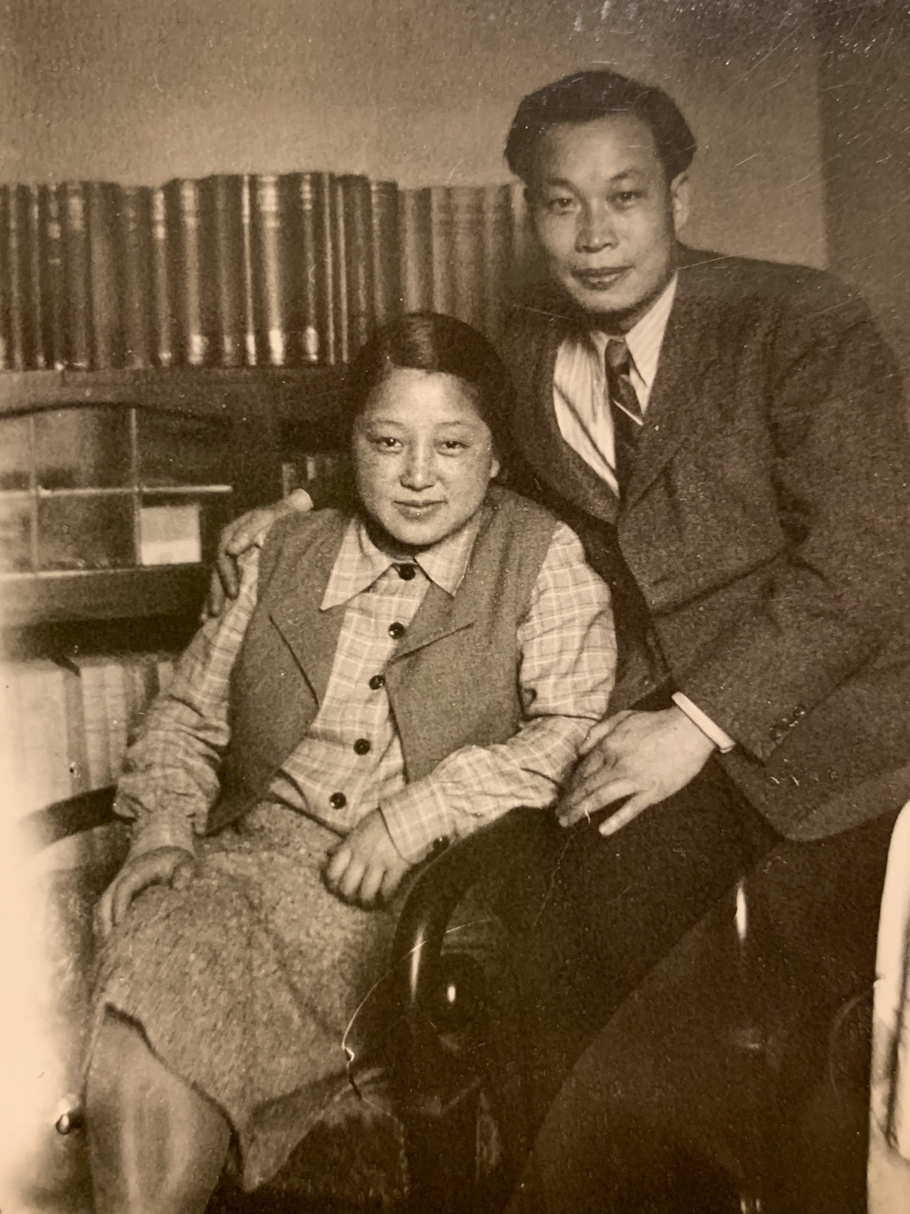 Prominent Chinese Physicists Qian Sanqiang and He Zehui in 1947, Paris